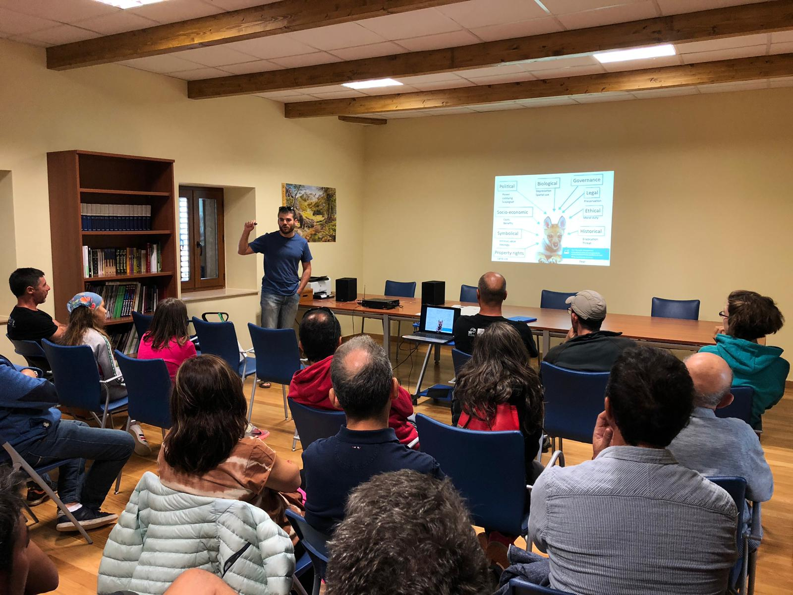 Charla organizada por Cabrera Natural